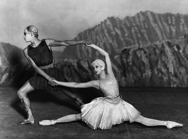 Ballets Russes with Apollo_musagète. Dancers are Alexandrova Danilova and Serge Lifar - Apollon Musagetes 1928 (info from source)